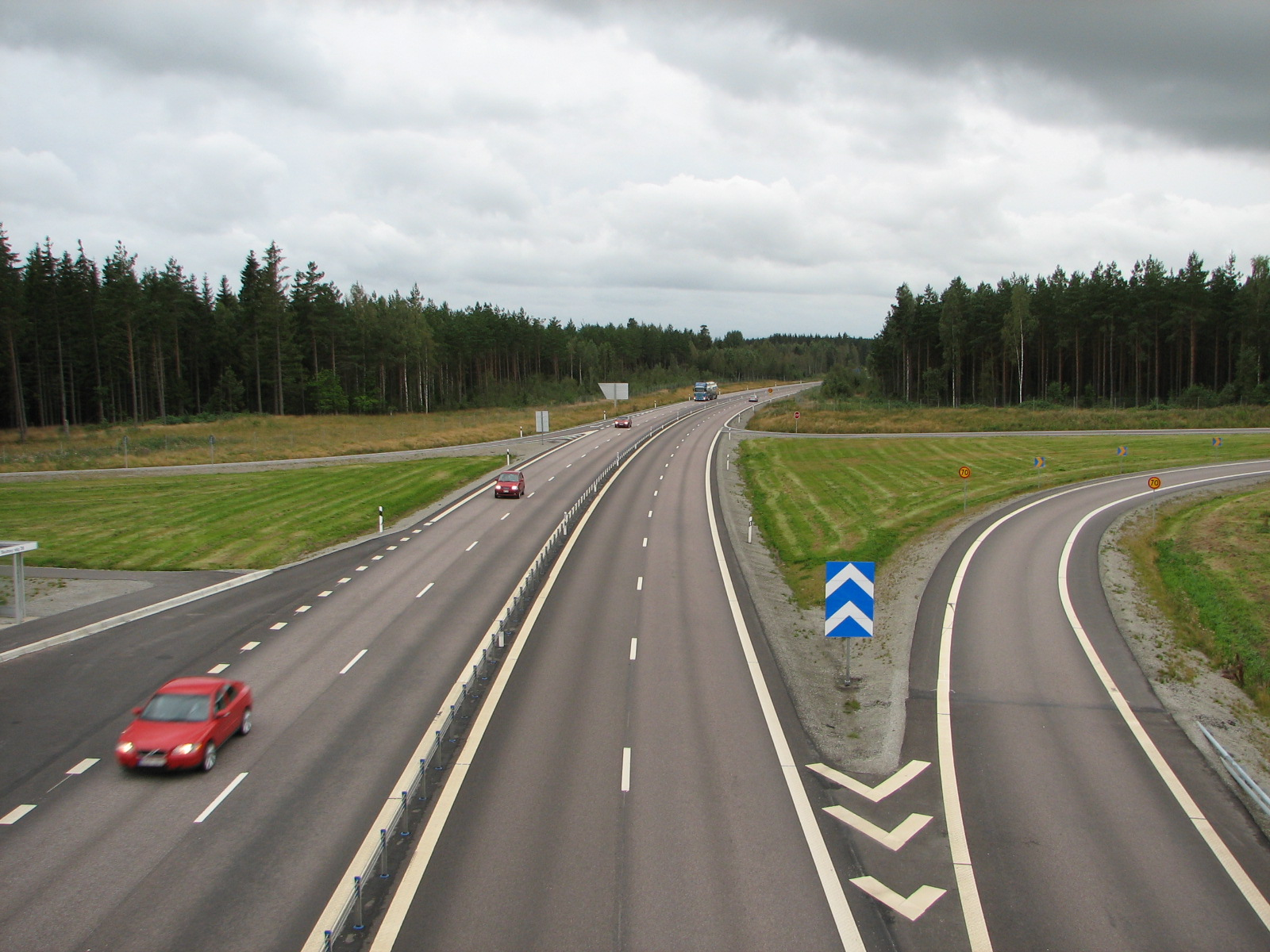 Riksväg 26, Trafikplats Skultorp. Dual carrigeway south of Skövde opened 2005, view at south.